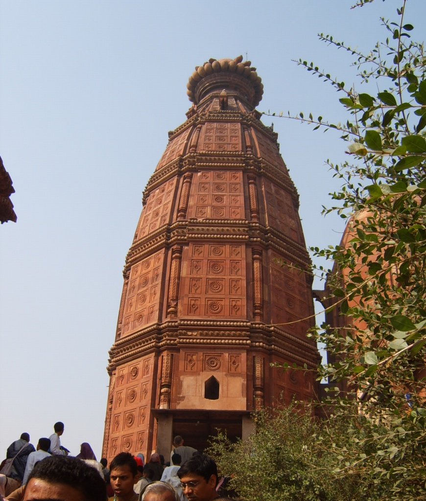 Temple of Radha-Madan Mohan in Vrindavan, India